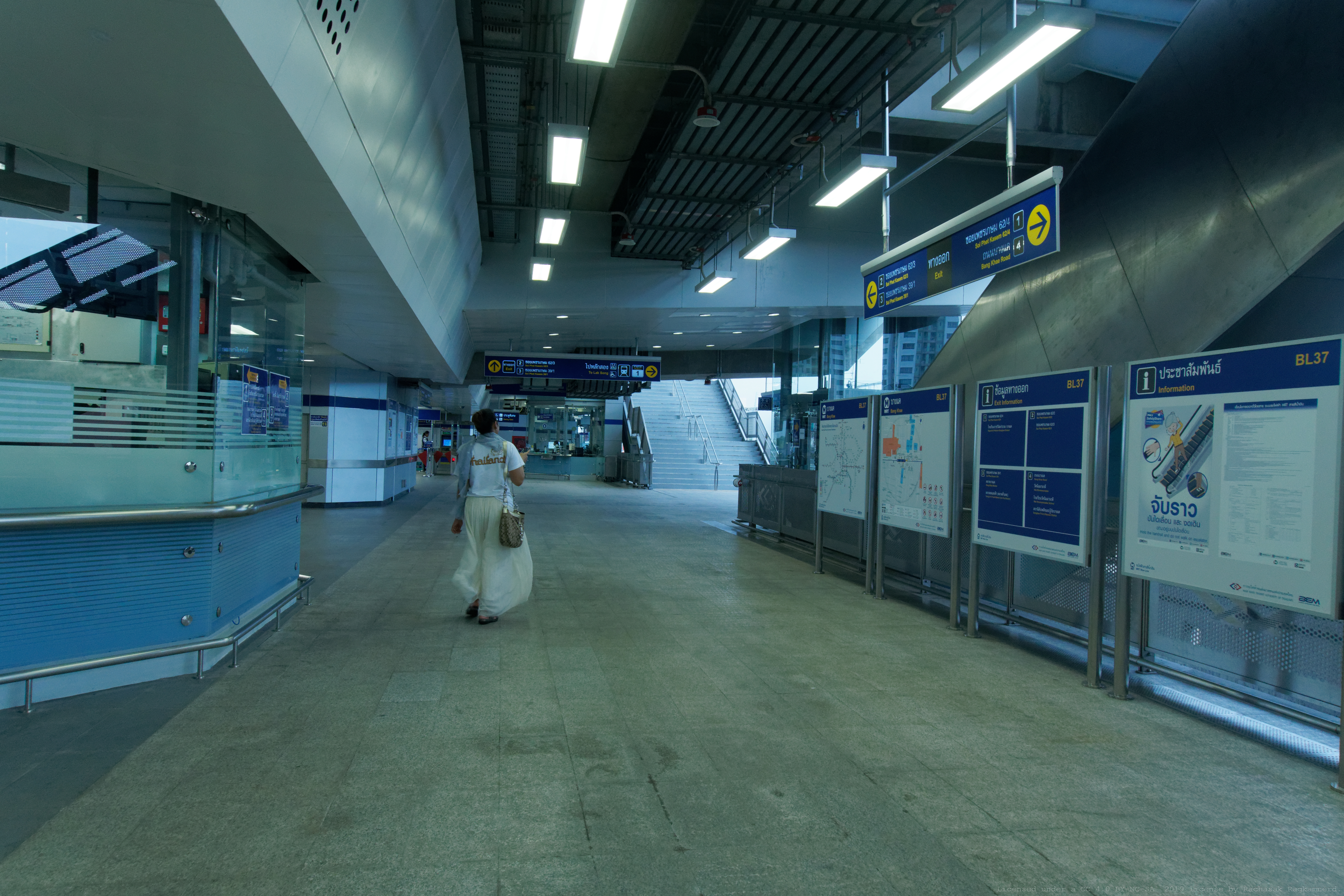 MRT Bangkae station: station hallway